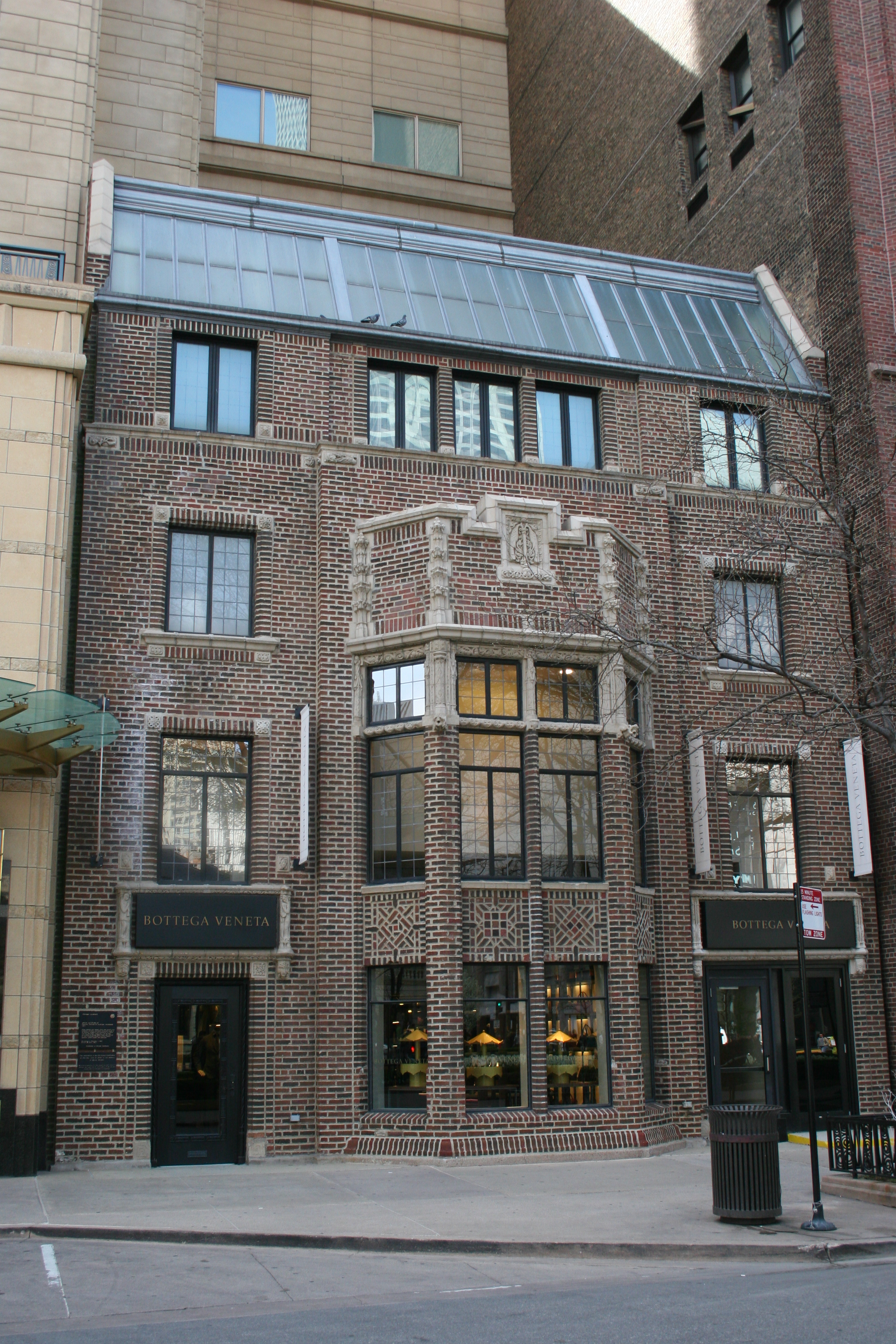 Small office Building in Near North, Chicago, IL